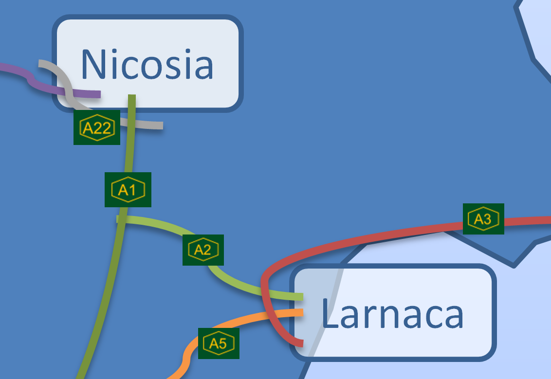 A2 Motorway Cyprus map created by me TomasNY| 11:36, 17 August 2007 (UTC)